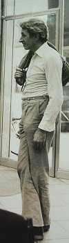 Antonio Papasso Incisore pittore Italiano